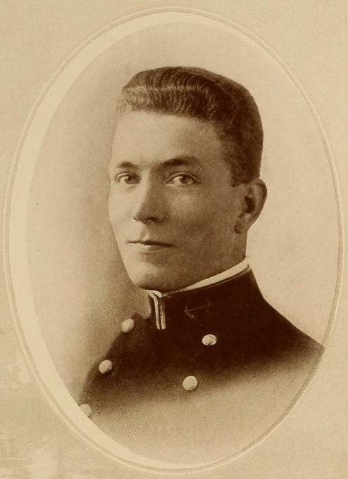 Arthur William Radford